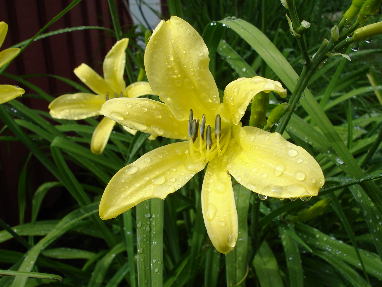 Hemerocallis species or cultivar